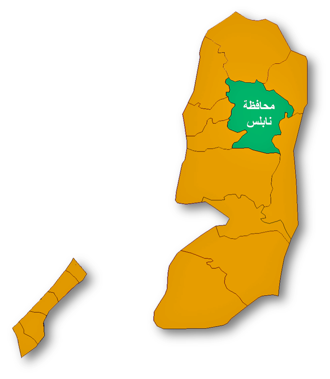 Map of the Palestinian Authorities showing the Governate of Nablus